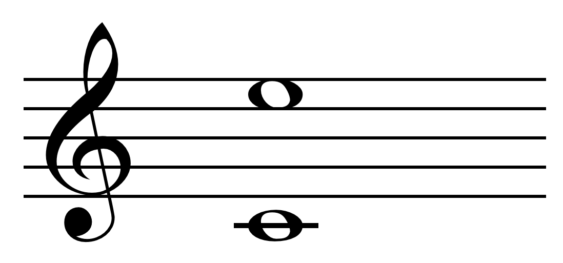 Major tenth on C. Created by Hyacinth (talk) 04:10, 30 April 2010 using Sibelius.